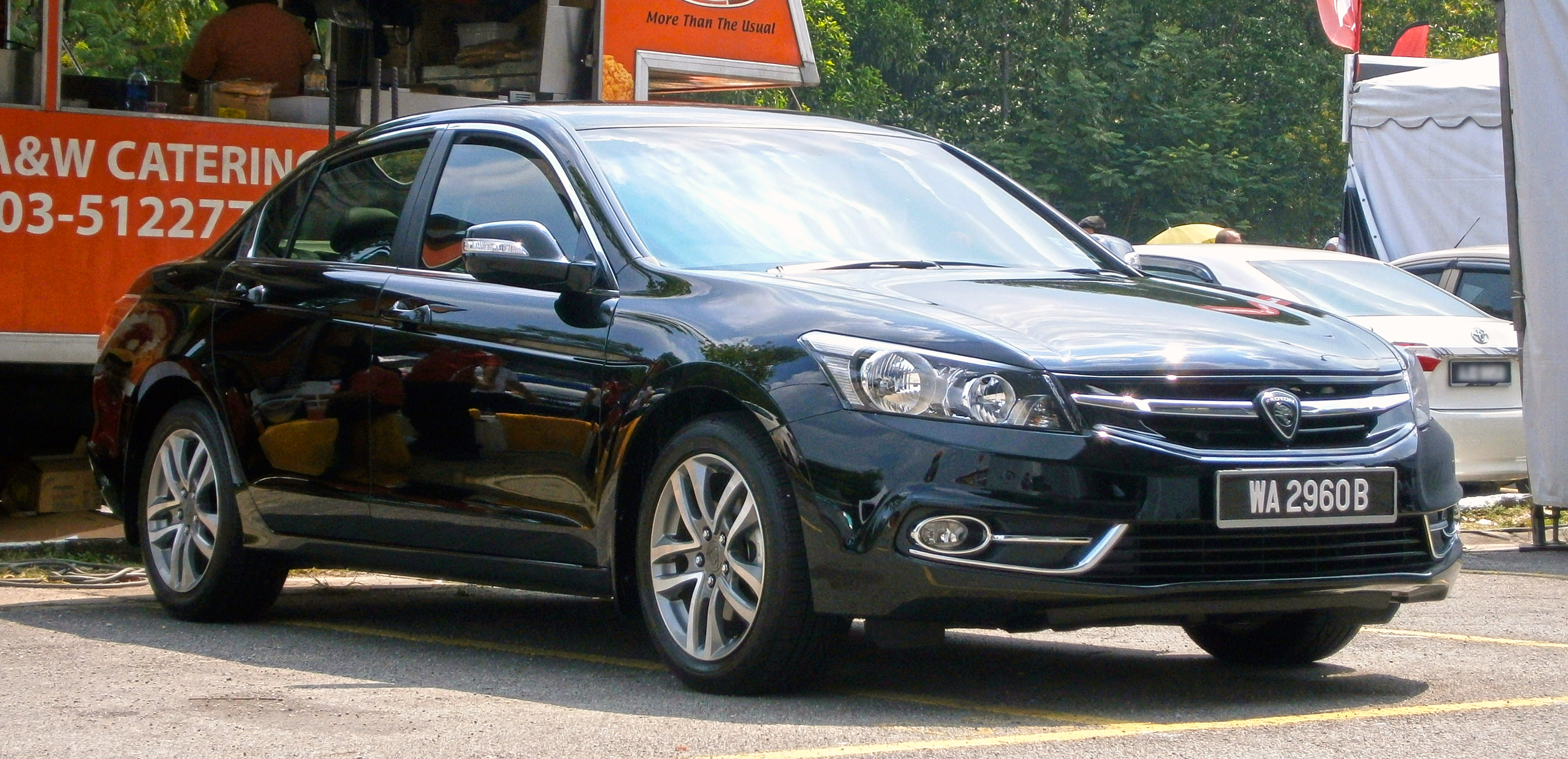 2014 Proton Perdana 2.4P in Shah Alam, Malaysia. Colour : Black (Official factory paint name unknown)